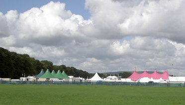 Eisteddfod 2008. In 2008 the National Eisteddfod came to the capital city - This shows the Maes (field) in its location on the banks of the River Taf, or Taff.